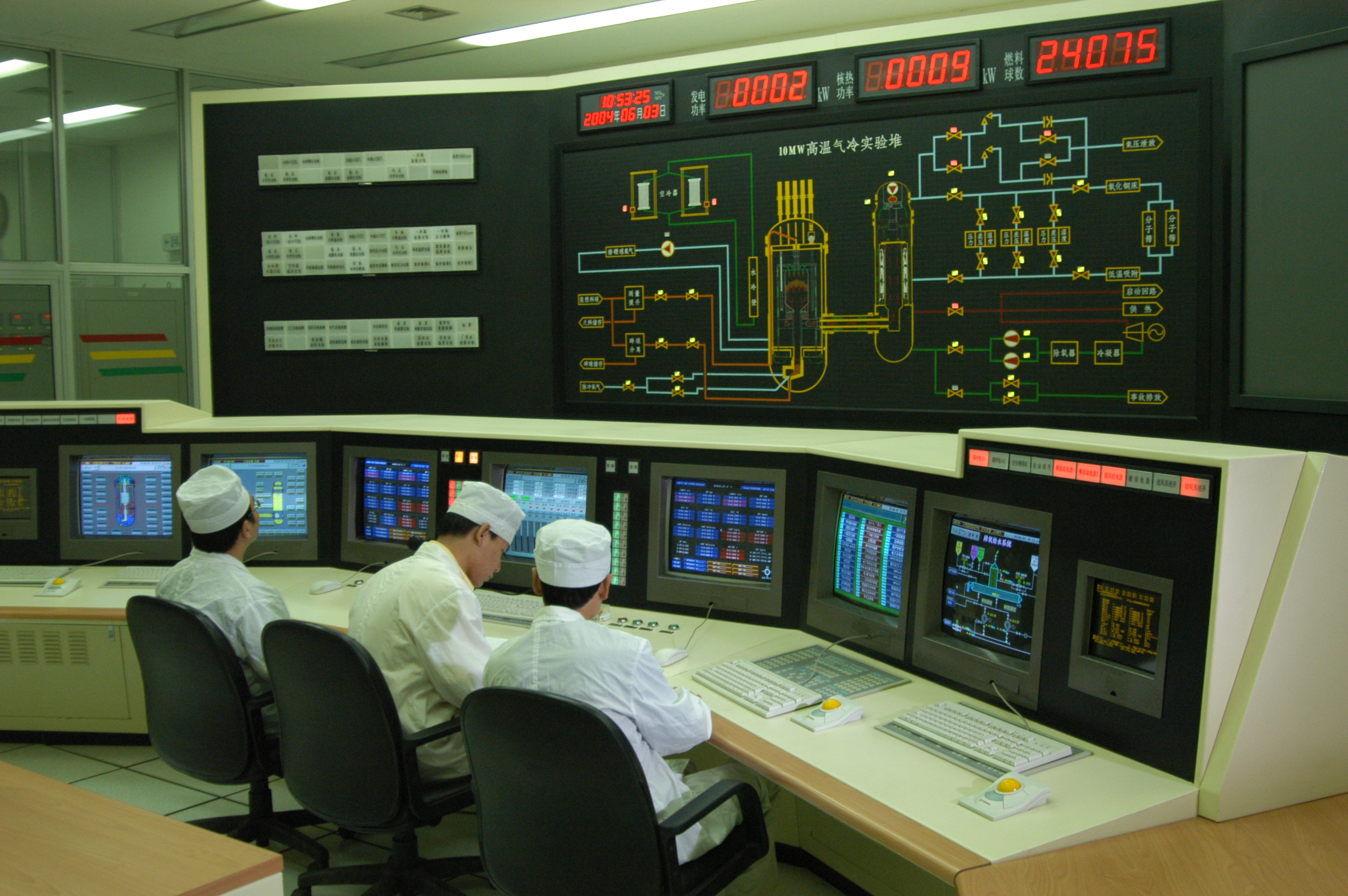 Control room of experimental high temperature gas cooled reactor at Tshinghua University, Beijing (China, June 2004).